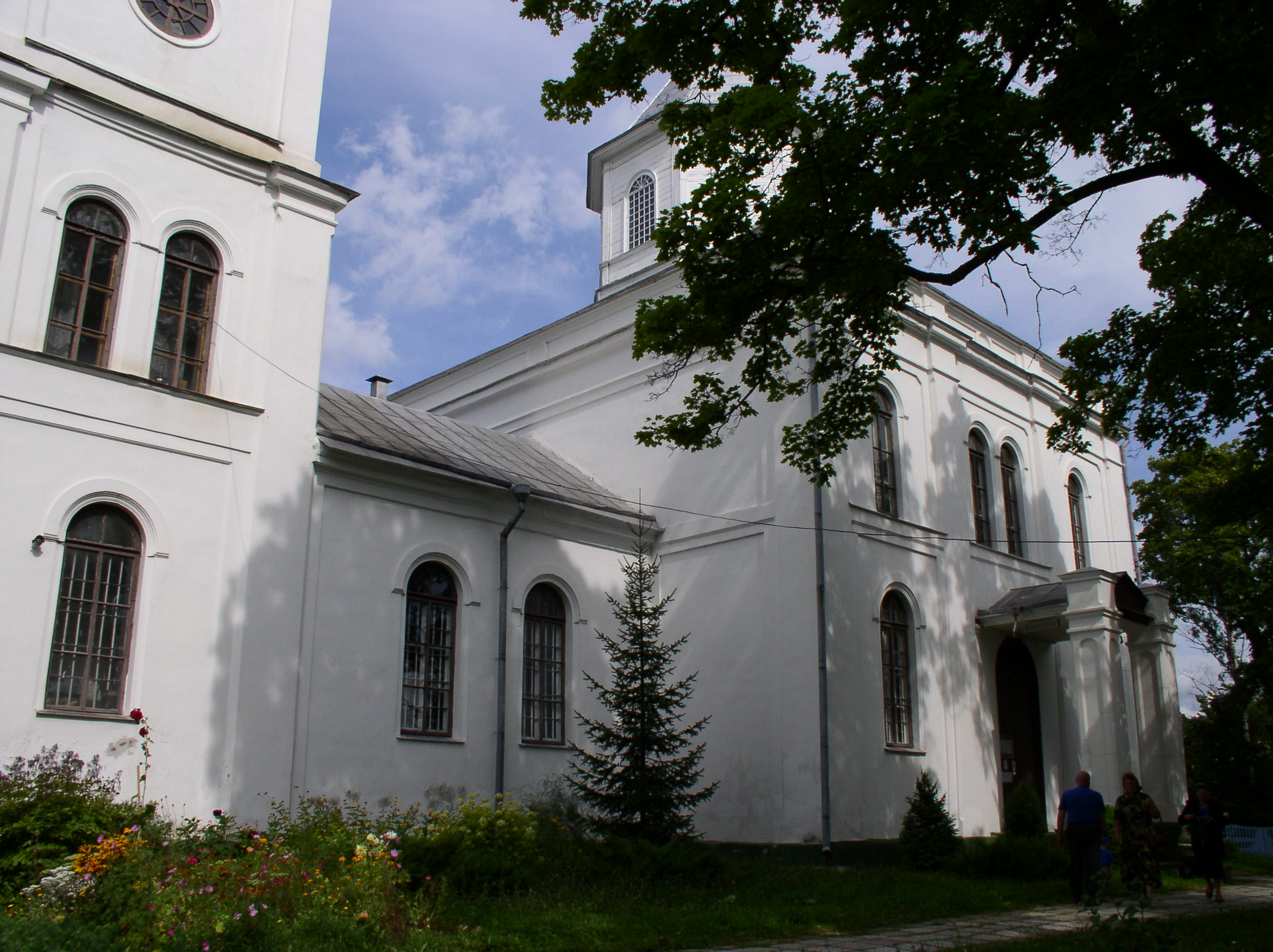 Church of Saint Nicholas. Lahoisk, Belarus.